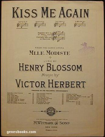 Sheet music from Mlle. Modiste, 1905